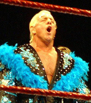 Ric Flair says his famous catchphrase "Wooooo!" at a WWE house show.